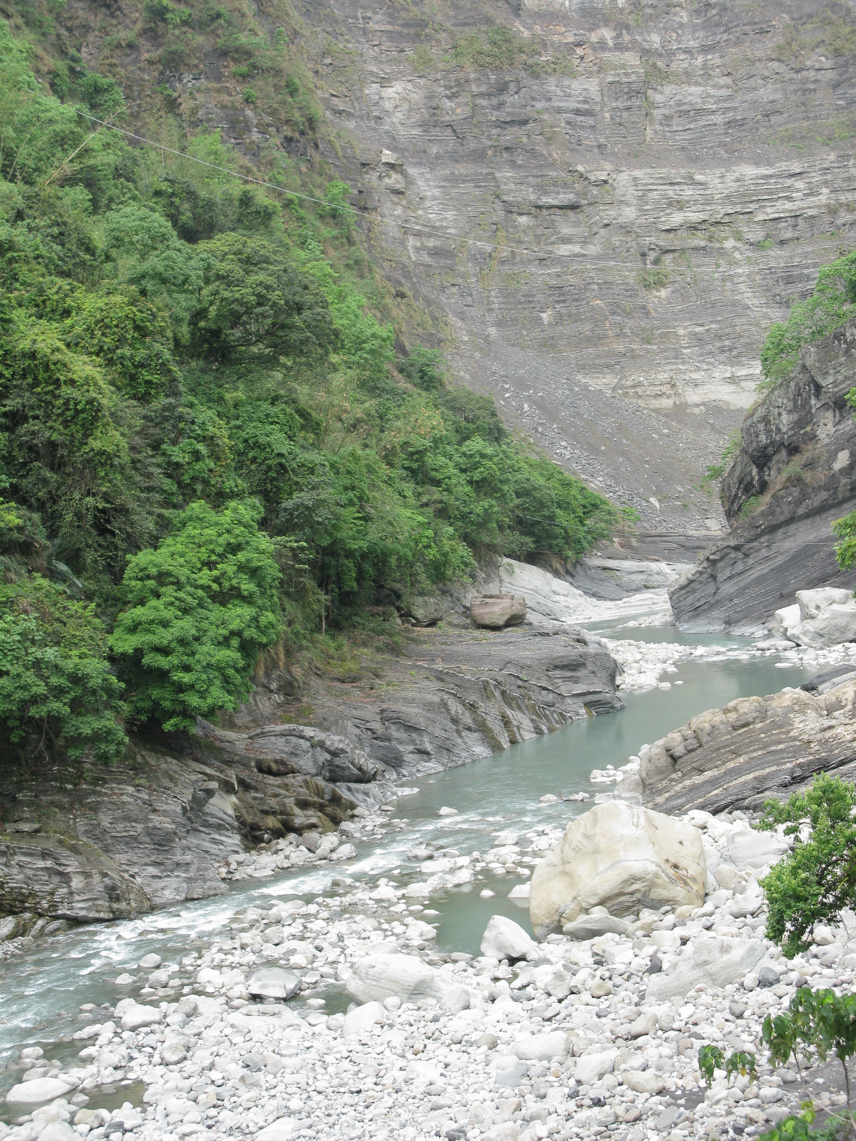 The Nanzihsian River flows through Shihji Great Canyon in Namasia, Kaohsiung. 中文（台灣）: 楠梓仙溪流經高雄那瑪夏的世紀大峽谷。